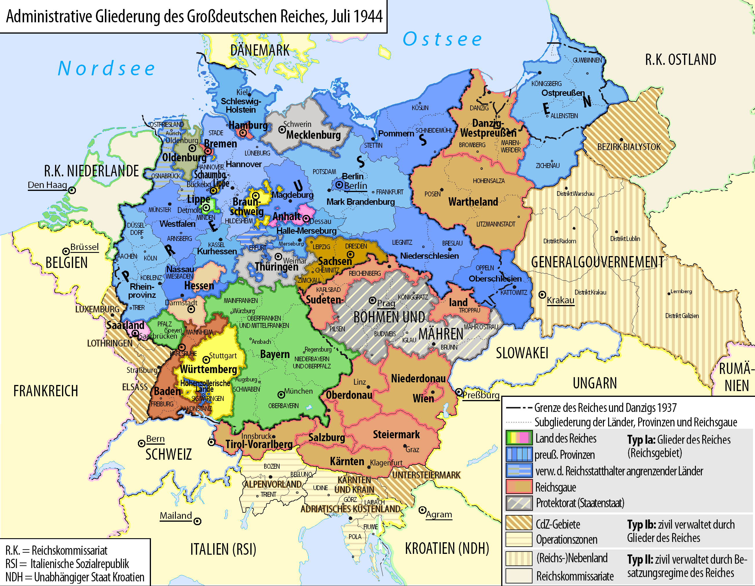 Map of the administrative division of the Greater German Reich ("Großdeutsches Reich"/"Großdeutschland"/"Greater German Empire"/"Greater Germany") by federal states, Prussian provinces and Reichsgaue 1944 (in German).